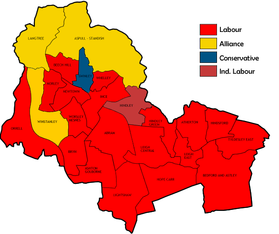 Wigan ward map with political colouring.